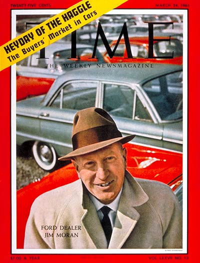 Time magazine, Volume 77 Issue 13. Front cover is a photograph of Jim Moran.